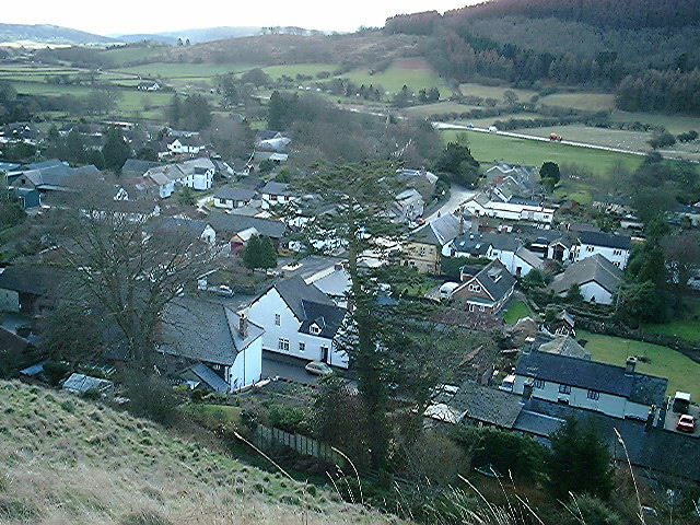 New Radnor from the hill.